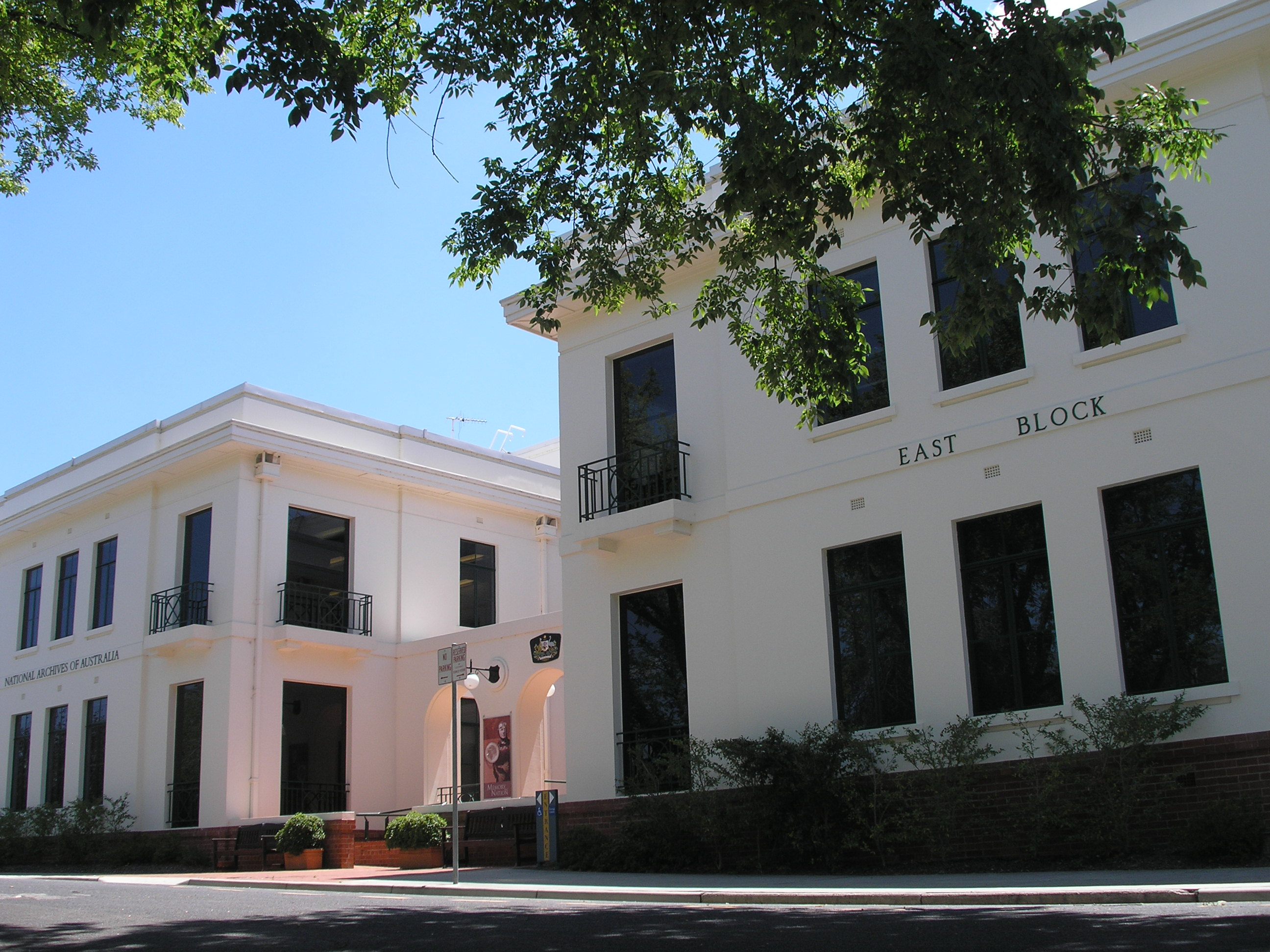 Eastern Facade of East Block building, Canberra, part of the original administration buildings for the national capital; now home of the National Archives of Australia